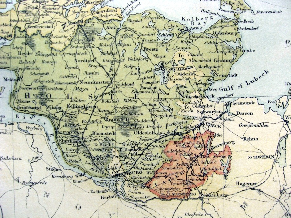 Photo showing the Duchy of Holstein, c1855-66, from an Engraved Lithograph Map of Denmark